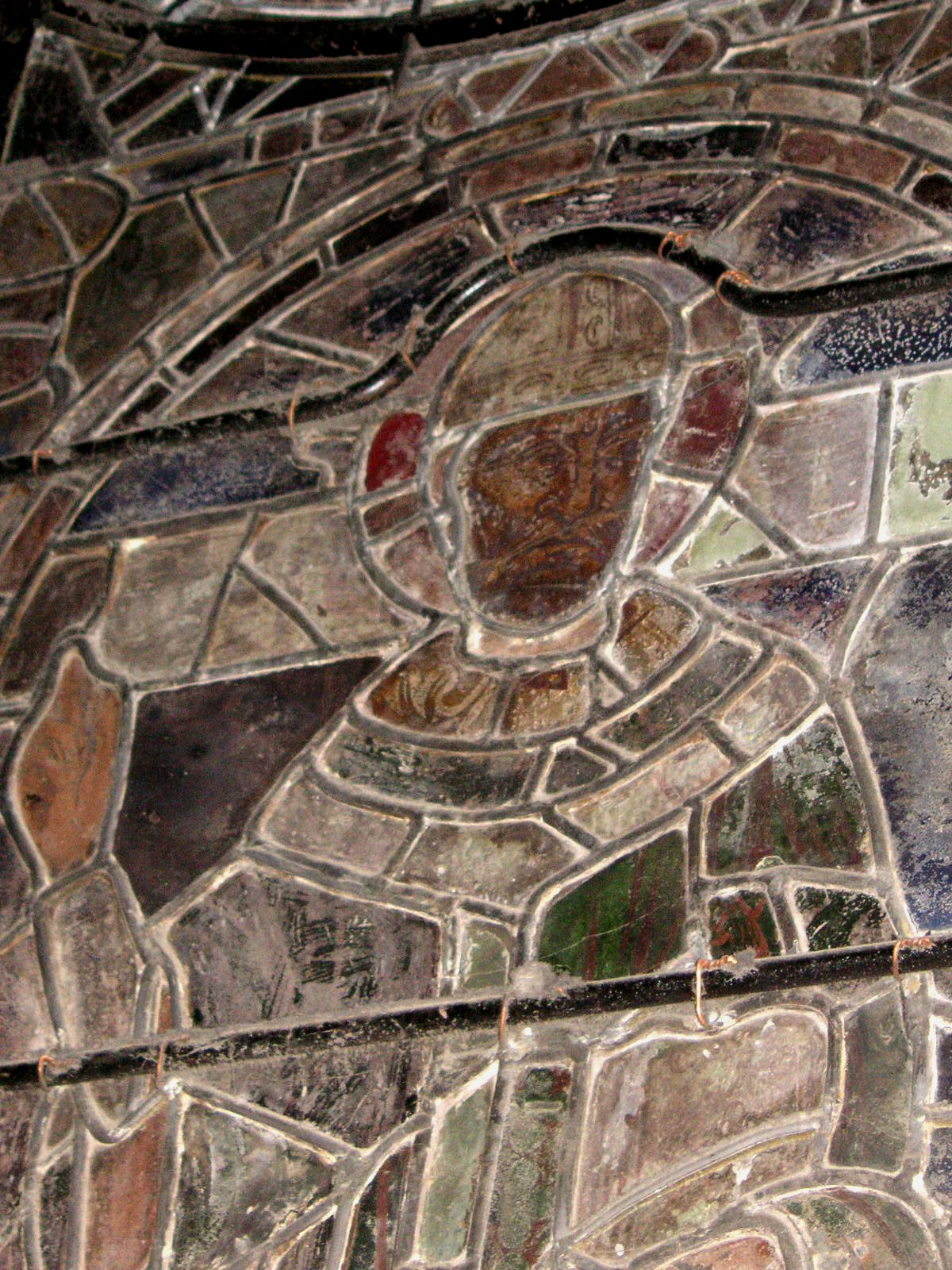 Canterbury cathedral, stained glass window showing detail of panel of St Thomas a Becket, photographed with flash. Image reveals the lead cames (H section) with soldered joints, the iron supporting rods and copper wire, the painted details on the surface of the glass.